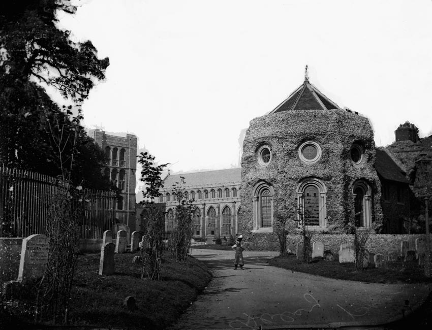 Old photographic view of ruins of Bury St Edmunds Abbey and churchyard and Norman tower, Bury St Edmunds, Suffolk, England. Courtesy of the Spanton Jarman collection, Bury St Edmunds Past and Present Society